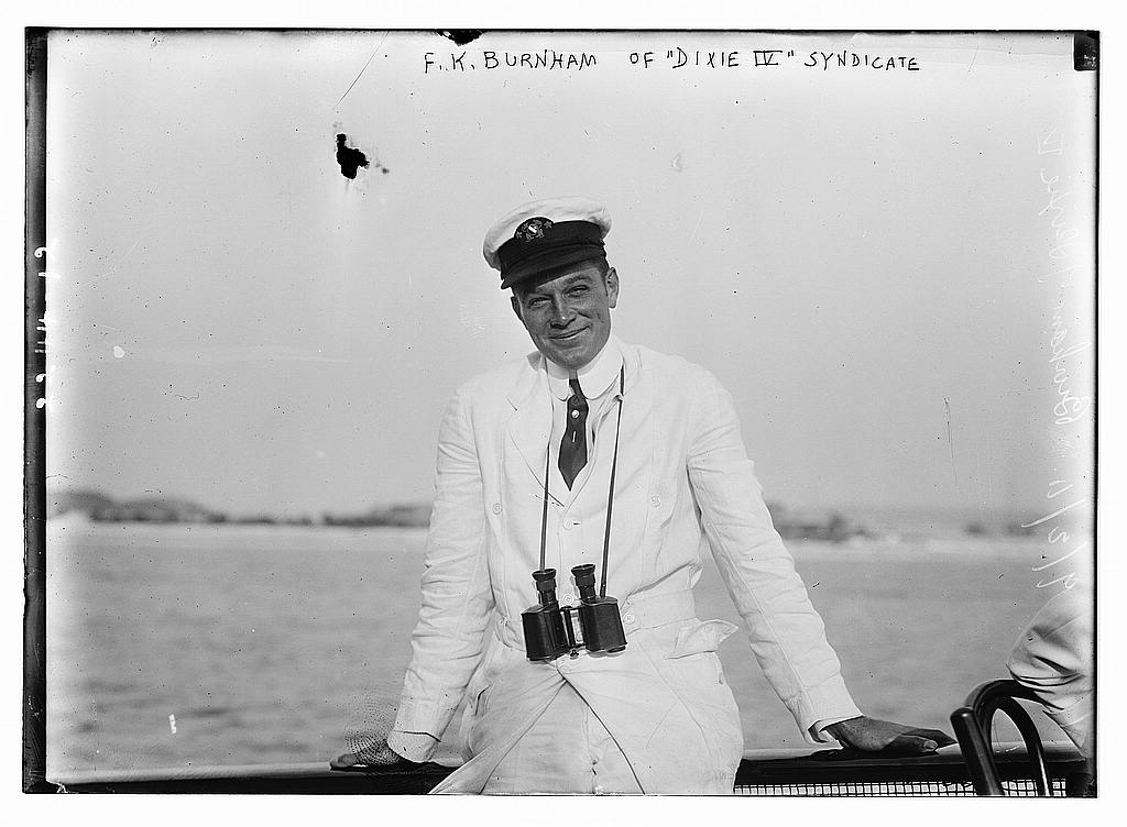 F. K. Burnham of "Dixie IV" syndicate in 1911 (LOC) Bain News Service, publisher. F.K. Burnham of "Dixie IV" Syndicate [between ca. 1910 and ca. 1915] 1 negative : glass ; 5 x 7 in. or smaller. Notes: Title from unverified data provided by the Bain News Service on the negatives or caption cards. Forms part of: George Grantham Bain Collection (Library of Congress). Format: Glass negatives. Repository: Library of Congress, Prints and Photographs Division, Washington, D.C. 20540 USA, General information about the Bain Collection is available at Persistent URL: Call Number: LC-B2- 2244-12